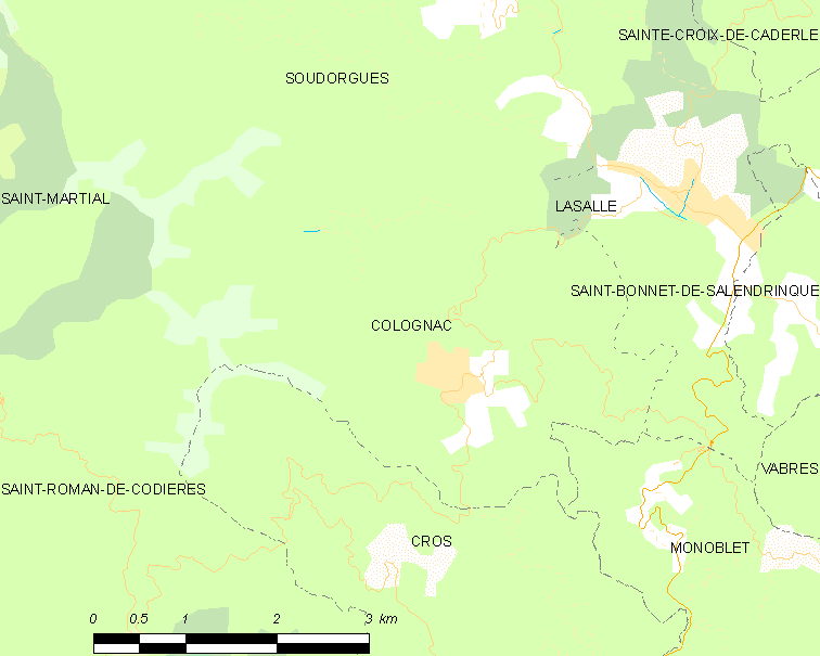 Map commune FR insee code 30087.png - Colognac